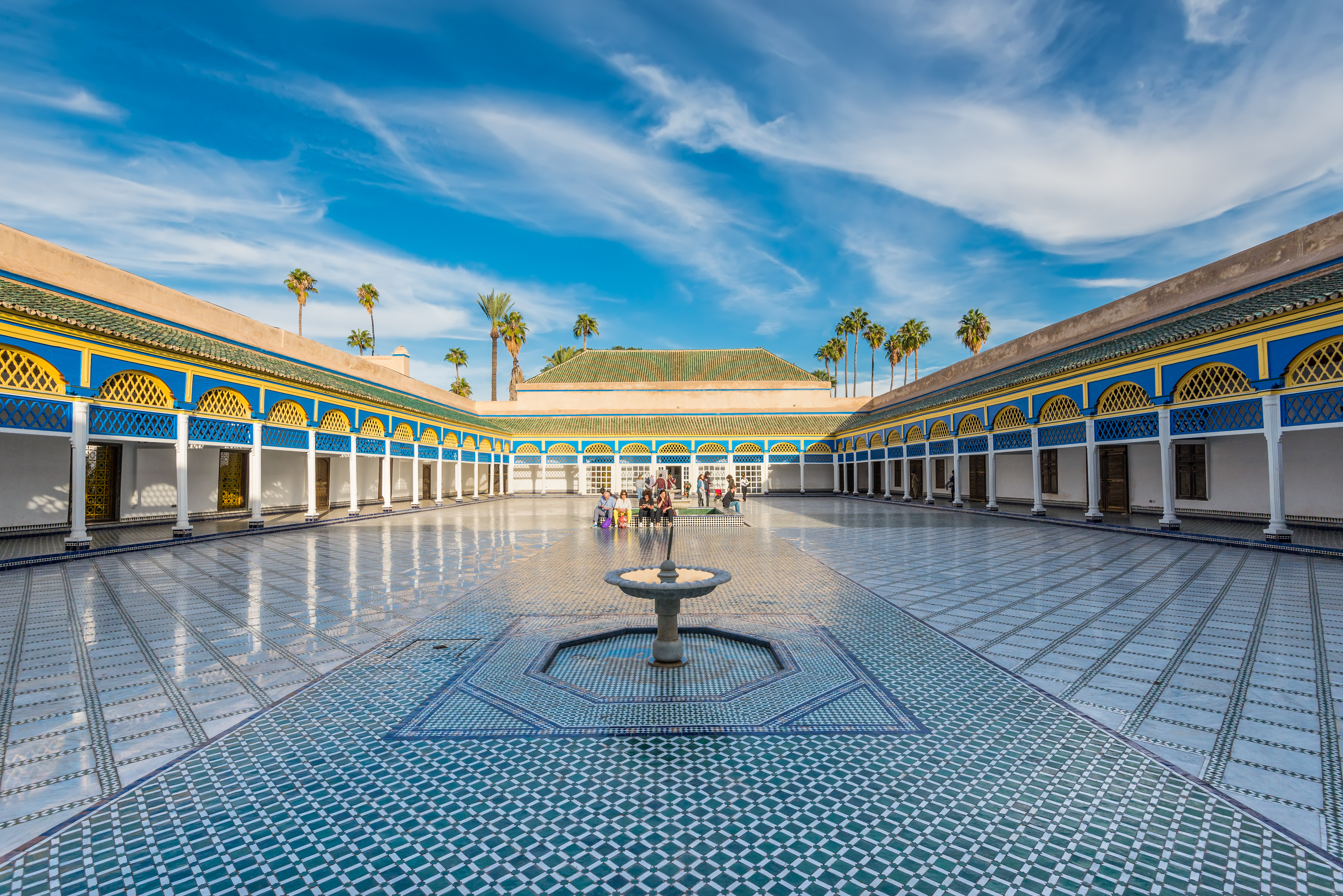 Marrakesh, Morocco - December 8, 2016: Inside the beautiful Bahia palace with the fountain in Marrakesh, Morocco, Africa.